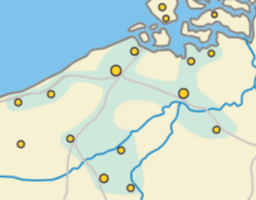 The Flemish Urban Region during the 14th/15hth century.